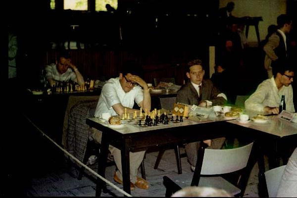 Lothar Schmid (in front) and Christian Clemens (right), European Team Championship, Oberhausen 1961, Photographer Gerhard Hund.